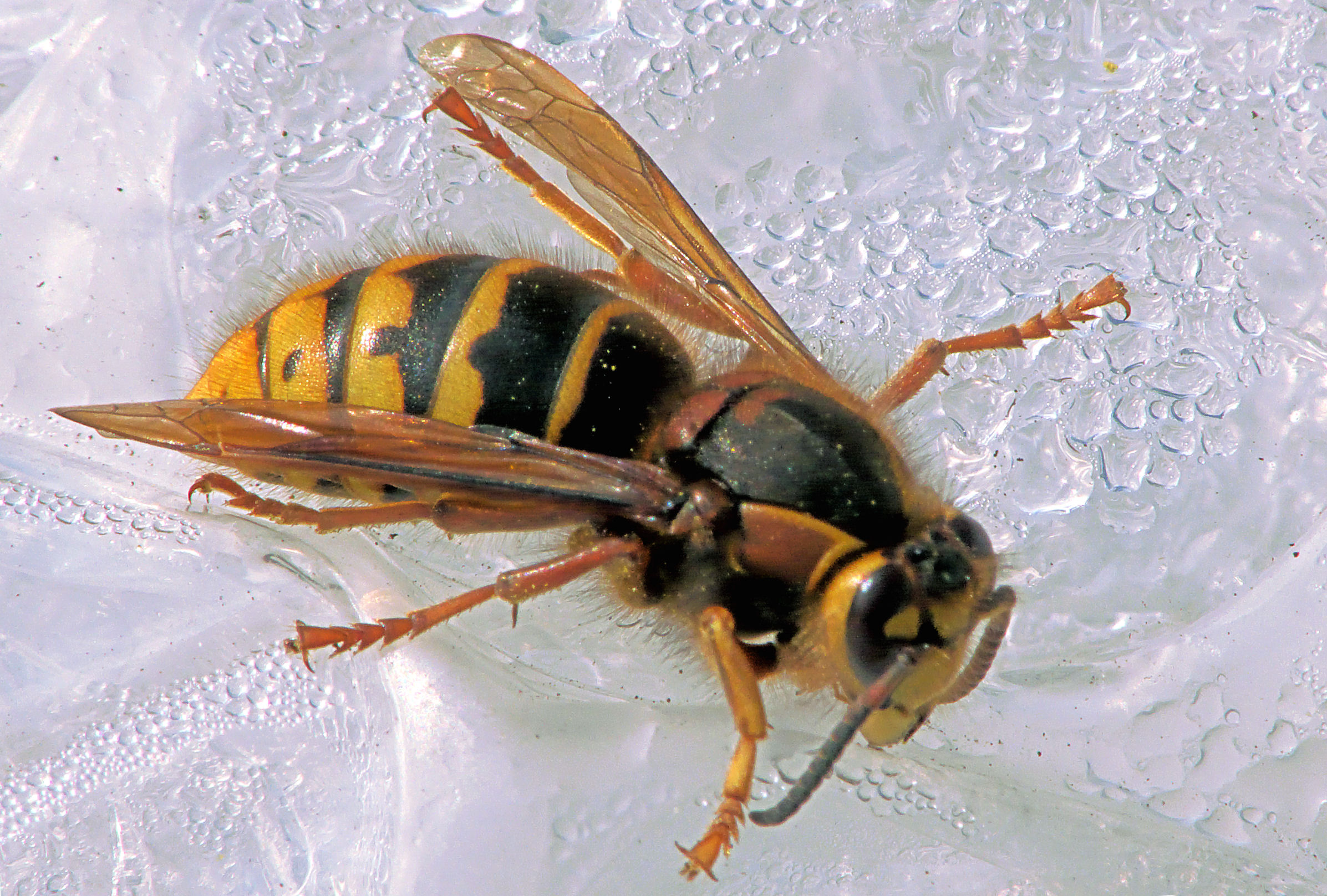 Dolichovespula media, queen, length 19 mm